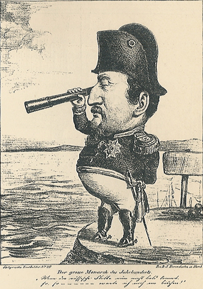 German caricature of Frederik VII of Denmark made during the First Schleswig War.